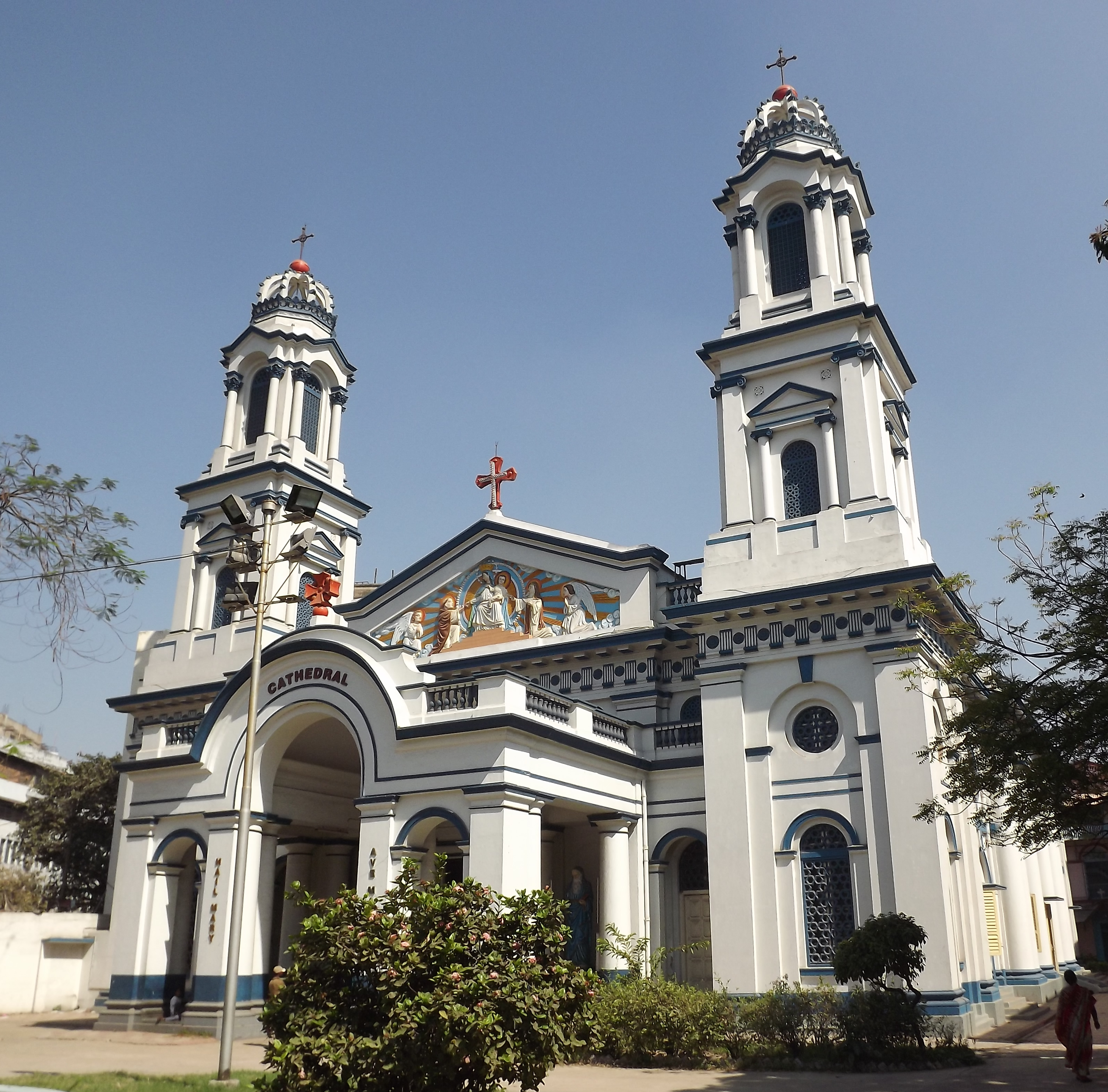 Cathedral of the Most Holy Rosary / Portuguese Church, 15, Portuguese Church Street, Kolkata - 100 001. Started - 1797